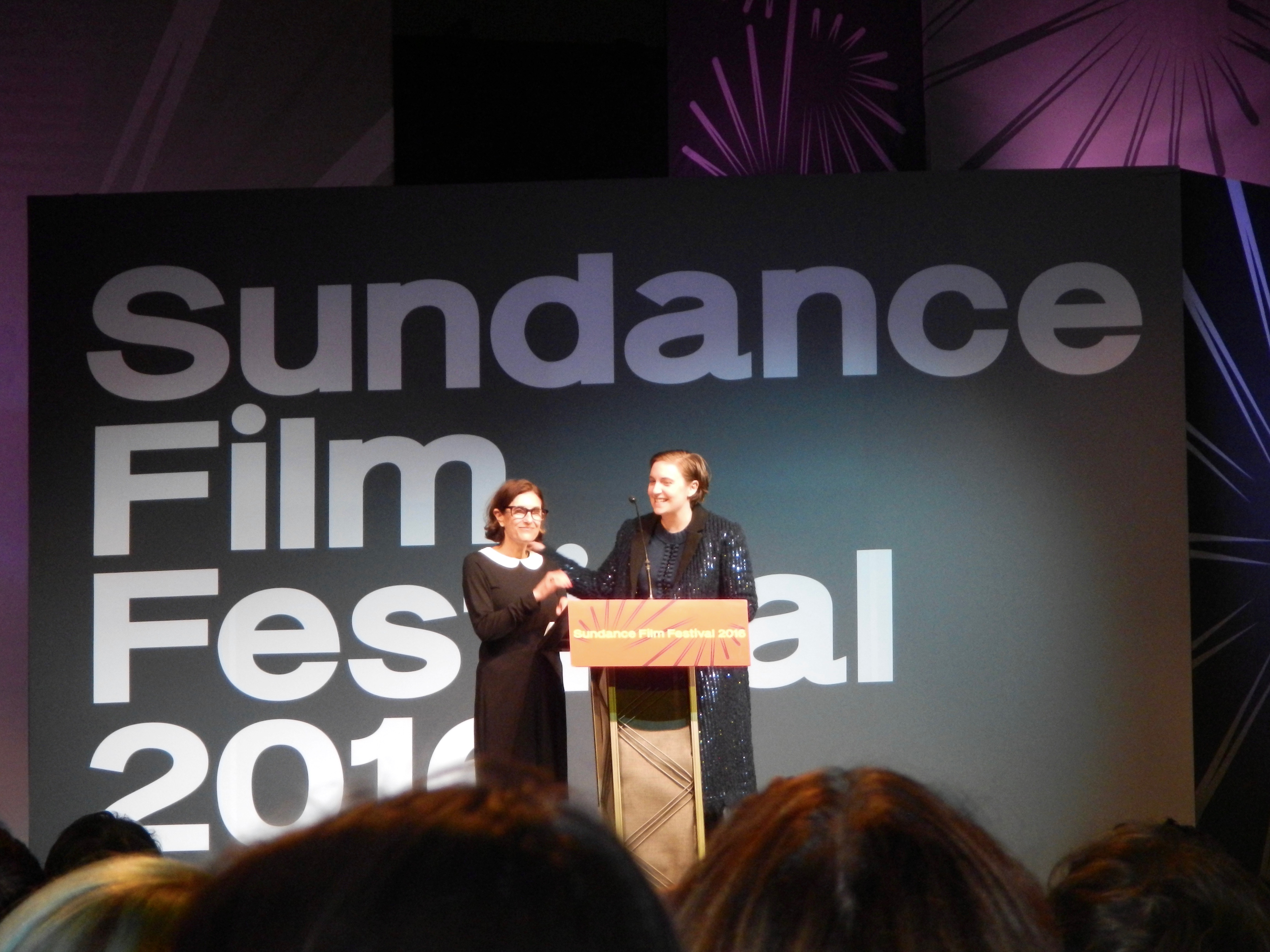 US Dramatic Jurors, 2016 Sundance Film Festival Awards, Park City UT